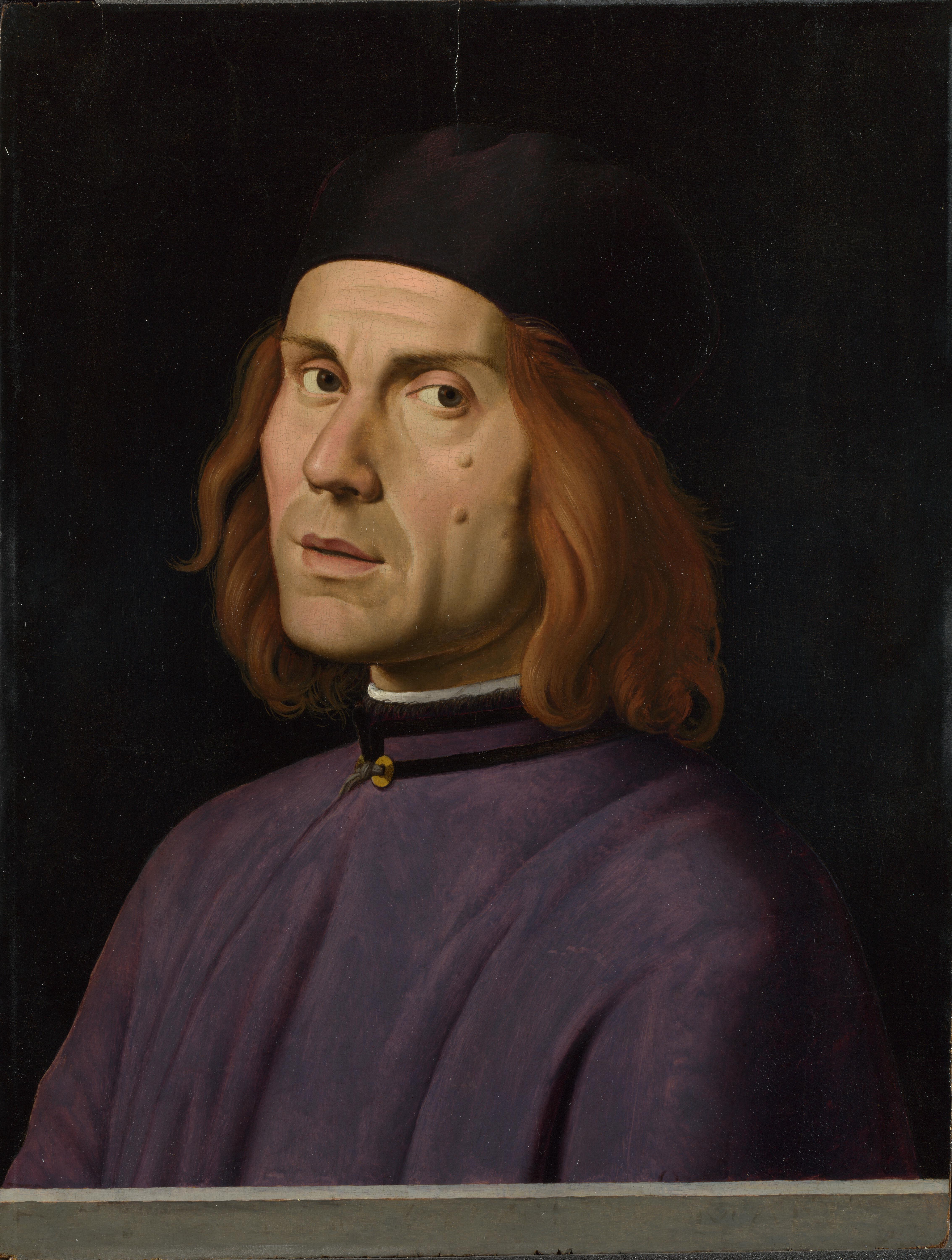 Mantuan poet and writer on medicine Battista Fiera (about 1465 - 1538)